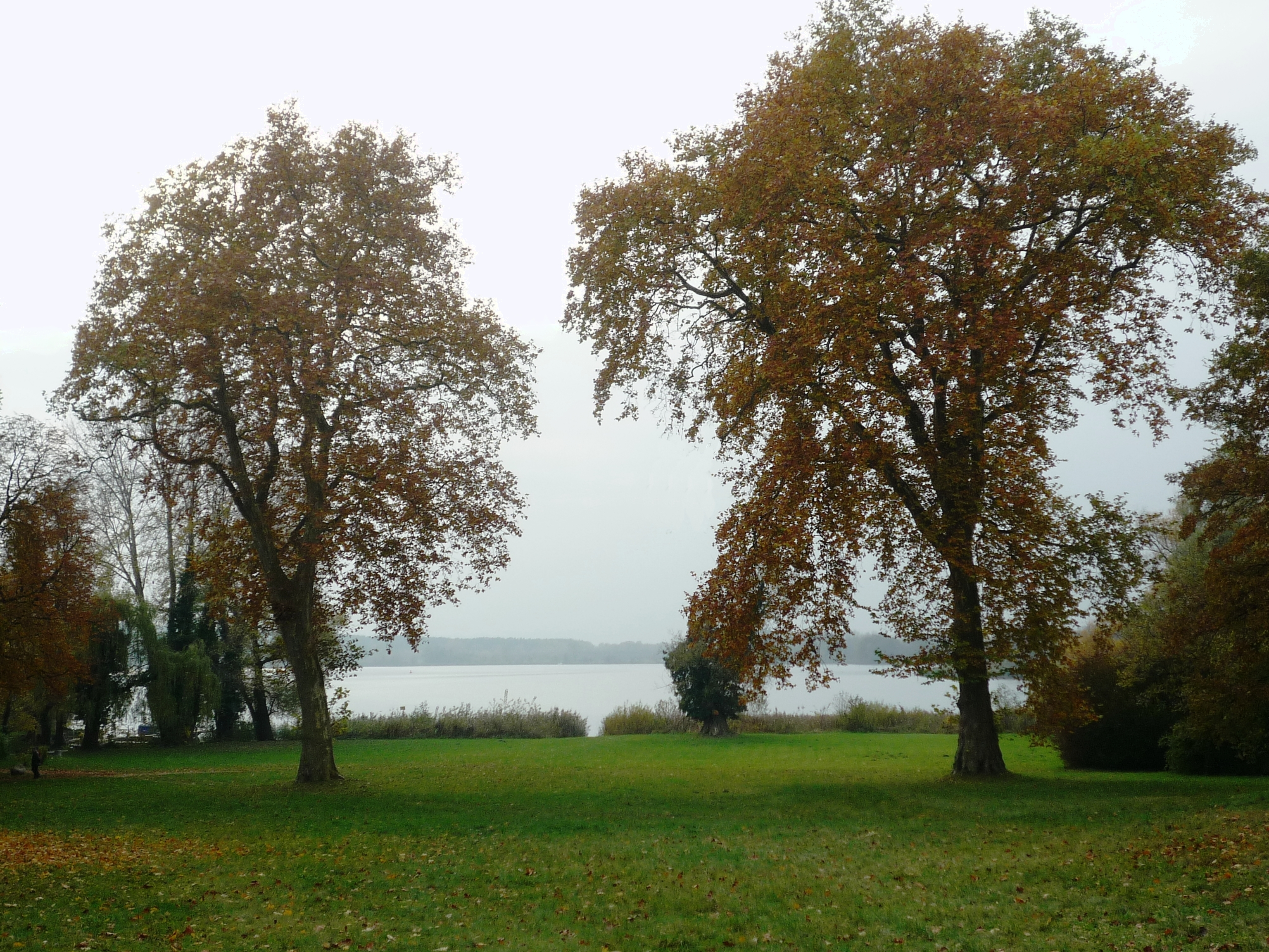 Marquardt palace near Potsdam, Germany. View from park to Schlänitzsee.